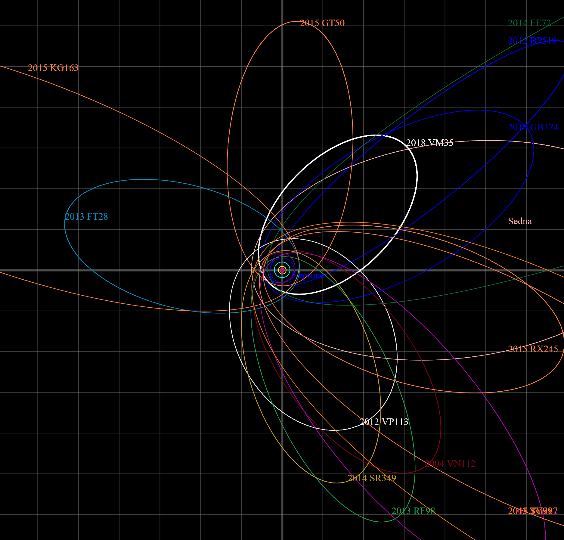 Orbital diagram of extreme trans-Neptunian objects including 2018 VM35